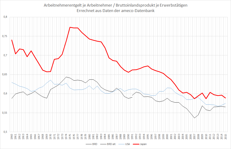 Real unit labour costs 1960 to 2015, USA, FRG and Japan